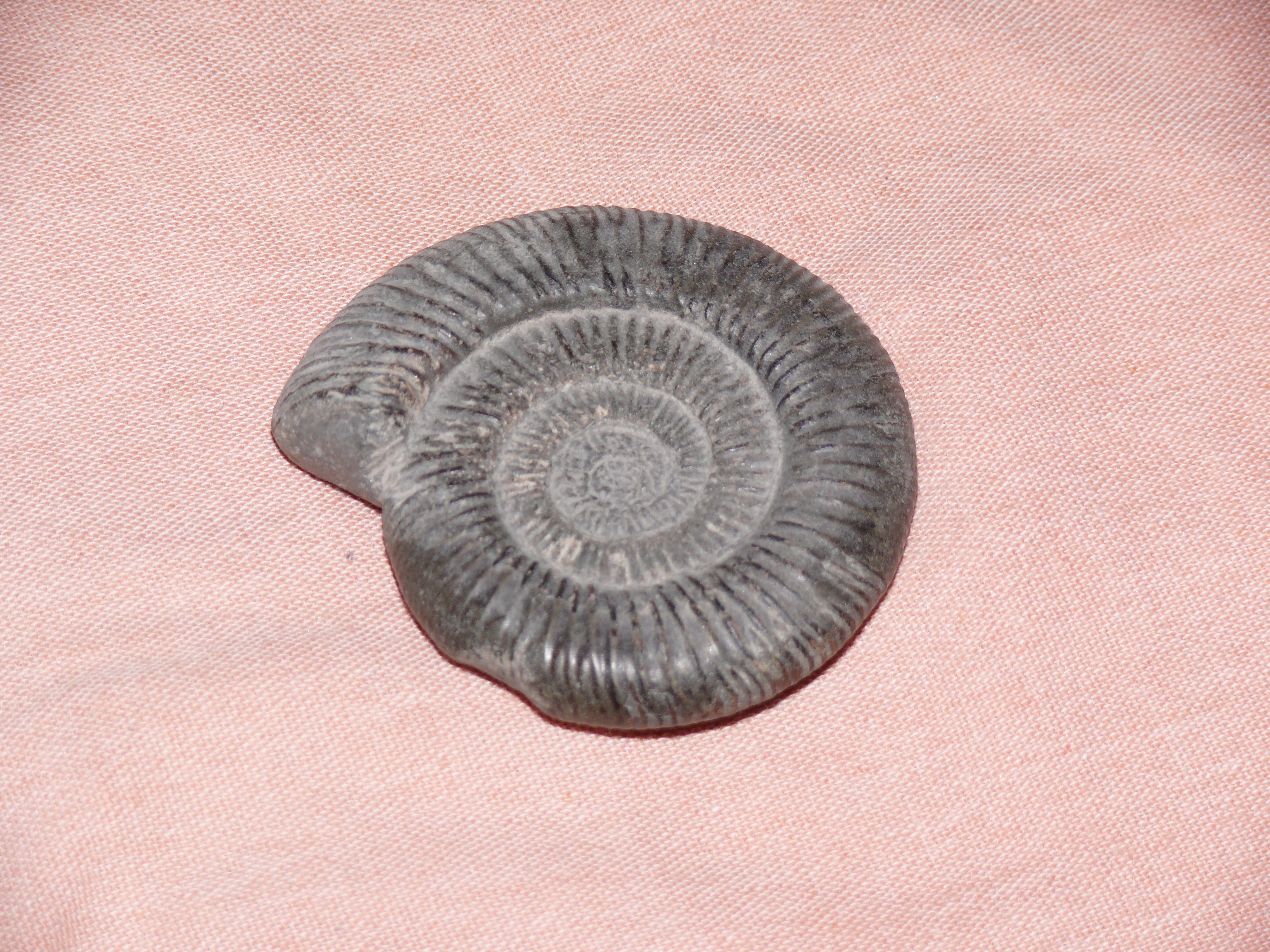 Dactylioceras, Robin-Hoods Bay, England